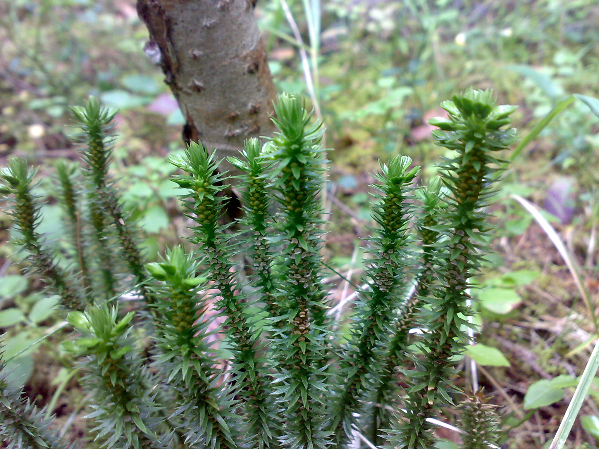 Huperzia selago in Hurum, Norway